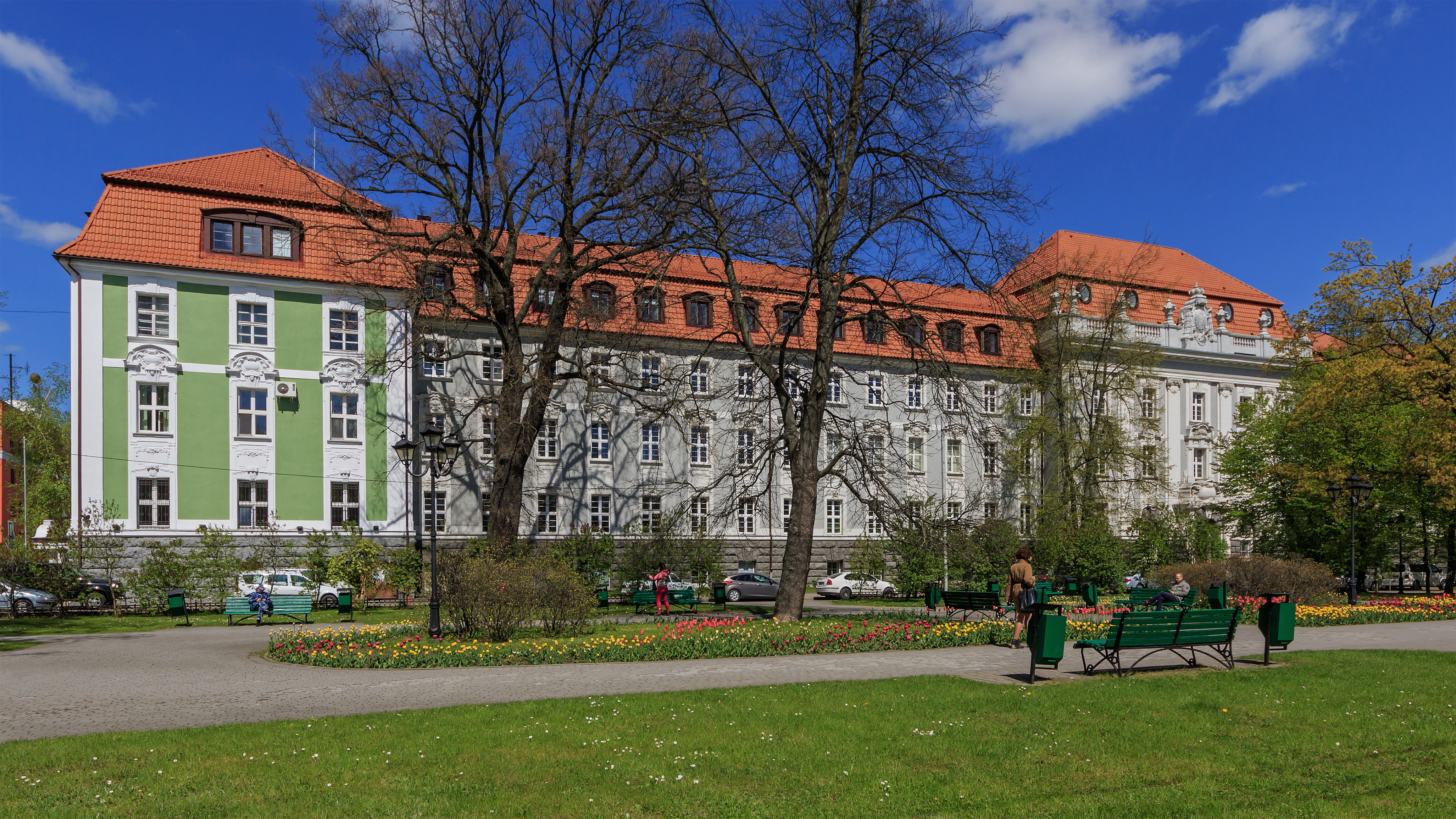 Former courthouse (now Technical University main building) in Kaliningrad formerly Königsberg, Kaliningrad Oblast (Russia).